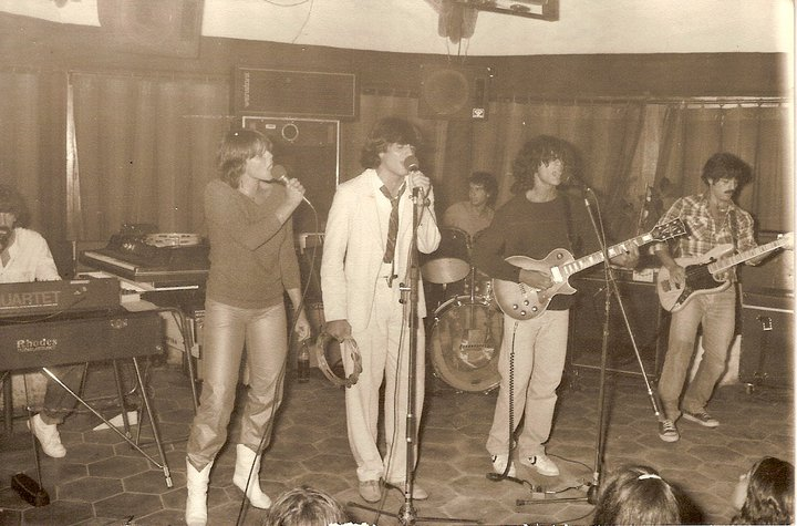 Charlie Amato tocando con el Grupo de rock "The Morgan" en el parador La Olla, Punta del Este, Uruguay en Enero de 1981. A la derecha Hector "Zeta" Bosio en bajo, a la izquierda Chris Hansen en guitarra y voz, Sandra Baylac en voz, Osvaldo Kaplan en teclados y atras Hugo Dopaso en bateria.